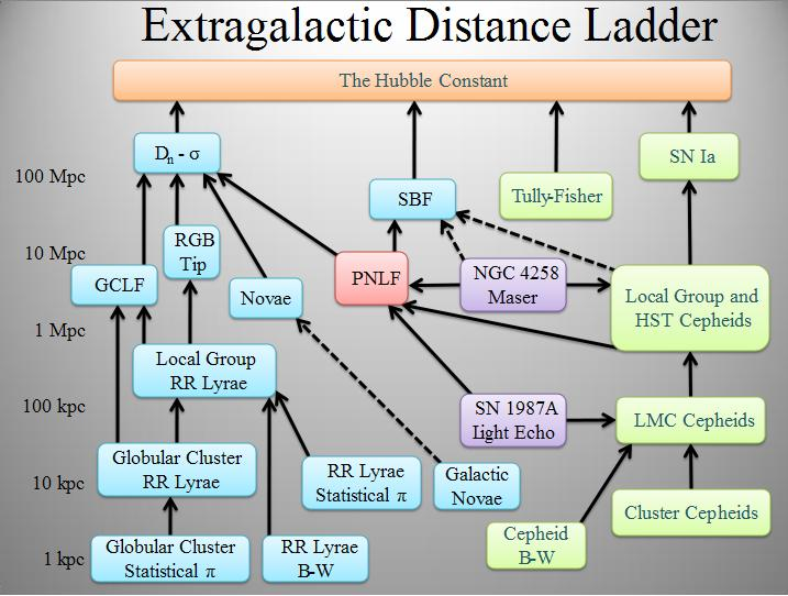 Light green boxes: Technique applicable to star-forming galaxies. Light blue boxes: Technique applicable to Population II galaxies. Light Purple boxes: Geometric distance technique. Light Red box: The planetary nebula luminosity function technique is applicable to all populations of the Virgo Supercluster. Solid black lines: Well calibrated ladder step. Dashed black lines: Uncertain calibration ladder step. B-W stands for Baade-Wesselink method. Extragalactic Distance Ladder; Source file has undesirable cropping of right-hand border